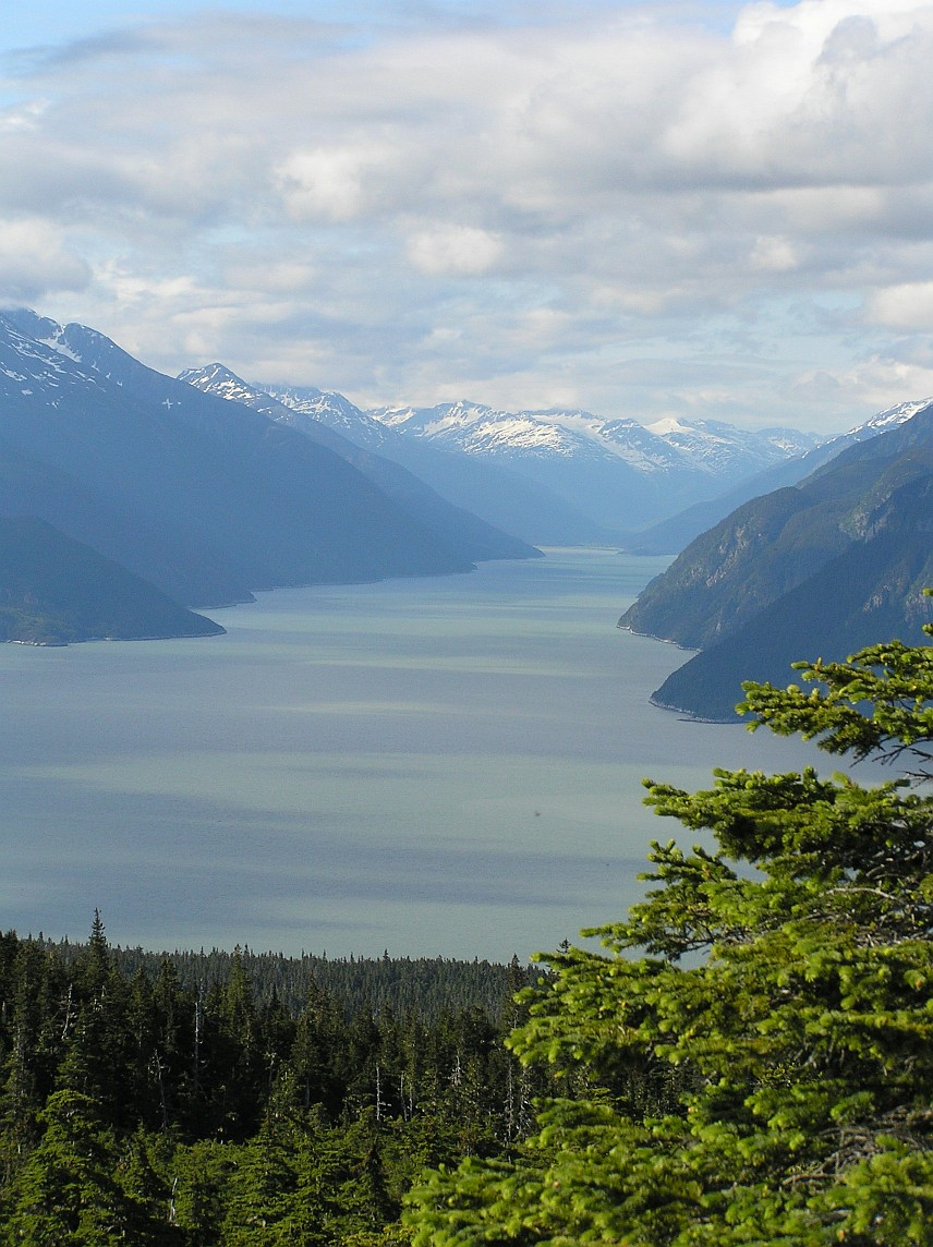 Taiya Inlet from Mount Riley, south of Haines, Alaska